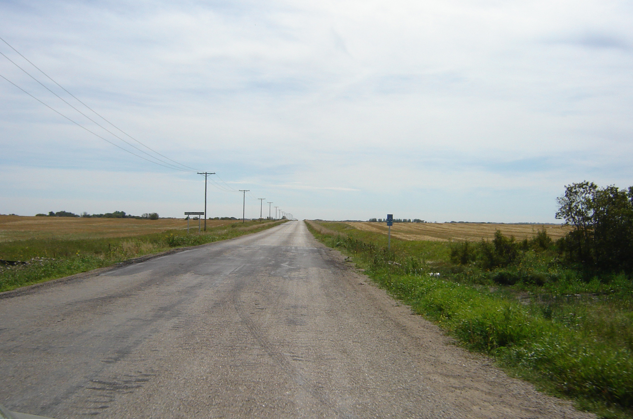 Sk Hwy 35 Between Fort Qu'Appelle and Qu'Appelle Saskatchewan